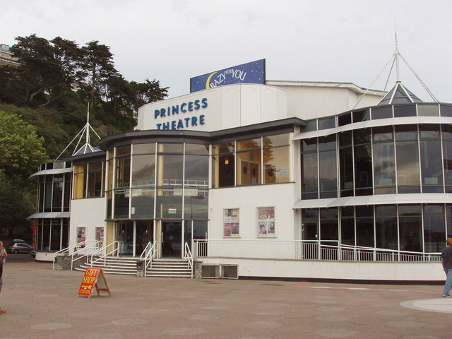 Princess Theatre, Torquay. Large enough for West End plays, opera and ballet. It is by the harbour. Photo from Princess Pier which adjoins it.